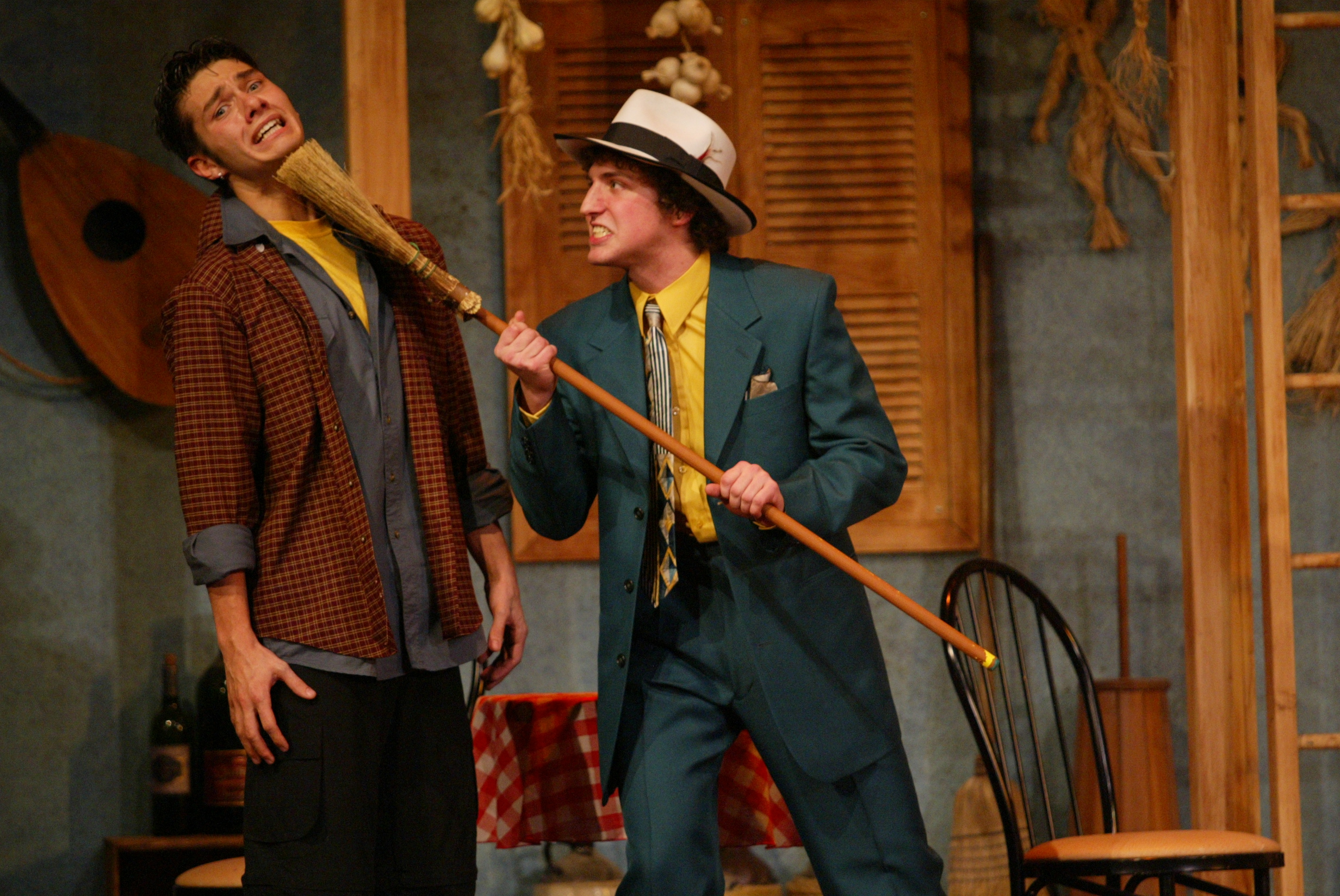 01/28/2003 - The Otterbein College production of Scapino! - Photo by Karl Kuntz -656 College Crest Road - Westerville - Ohio - 43081 ¥ 614- 895-5331